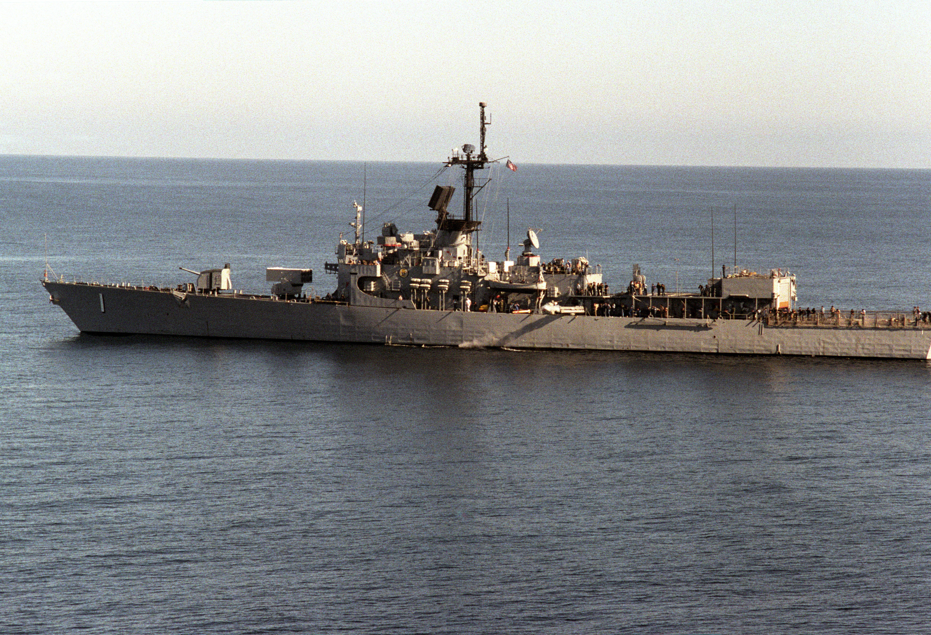 The U.S. Navy guided missile frigate USS Brooke (FFG-1) underway off the coast of San Clemente Island, California (USA), during a missile exercise on 17 January 1988.